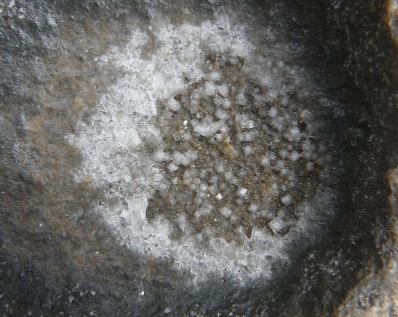 salt weathering, haloclastie, corsica, corse